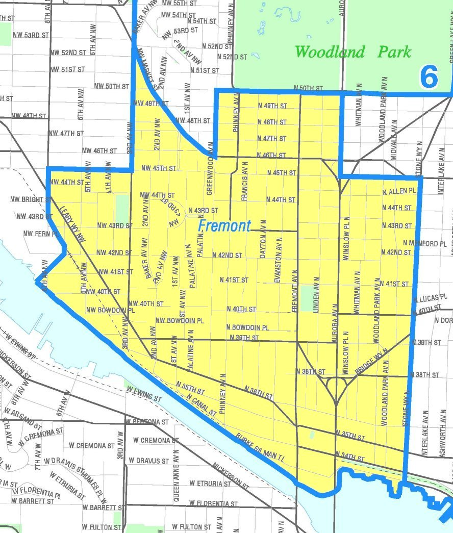 Map of Seattle's Fremont neighborhood. Like the other maps from the Seattle City Clerk's Neighborhood Map Atlas, this is not an official map; in particular, borders are not official. Disclaimer: The Seattle Neighborhood Atlas, which the Seattle Clerk's Office has placed in the public domain (as confirmed by OTRS ticket 2008033110016048) contains some general commentary on the maps, "About Maps", which should typically be linked as an accompaniment to these maps to (in their words) "minimize the numerous 'complaints' or comments by users who feel it necessary to point out how the Clerk's Office is 'wrong' about a certain section of town." In particular, "About Maps" says that the atlas "is designed for subject indexing of legislation, photographs, and other documents in the City Clerk's Office and Seattle Municipal Archives" and "is not designed or intended as an 'official' City of Seattle neighborhood map. There are many different ideas of what neighborhood districts exist in Seattle and what their names are…"